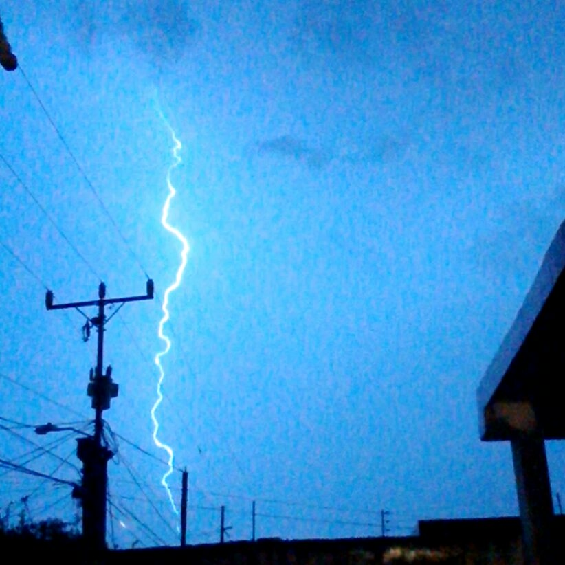 Lightning sky to earth (Maracaibo-Venezuela)